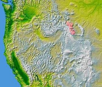 The Absaroka Range is shown highlighted in red on a map of the Western United States. The Sierra Nevada and Central Valley are shown in California on the west coast. Based on original public domain image courtesy of NASA. © 2004 Matthew Trump